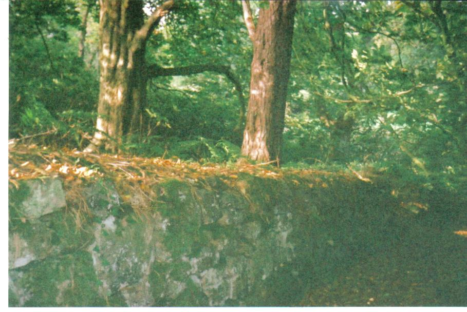 The Ha-ha at Chapeltoun House, near Stewarton in Ayrshire. 2006. It lies across the Annick Water from the main gardens, once reached by a bridge.